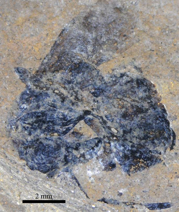 Profile view of the Protopone oculata holotype gyne Specimen SMFMEI2334